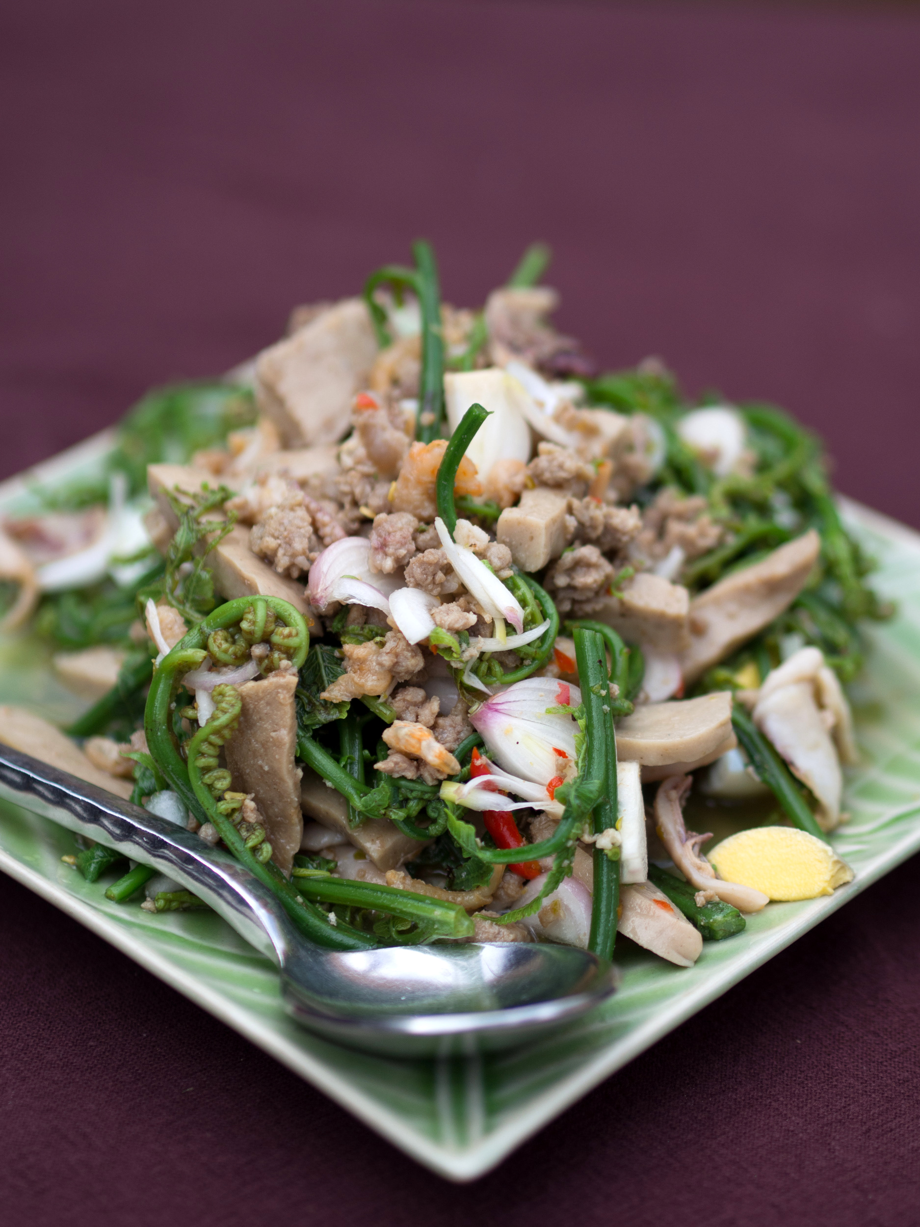 Yam phak khut (Thai script: ยำผักกูด): a salad of edible fern shoots (Diplazium esculentum) and pork.